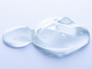 hidrogela egoera solidoan